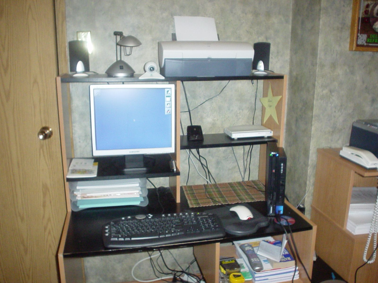 Playstation 2 Linux kit all set up.